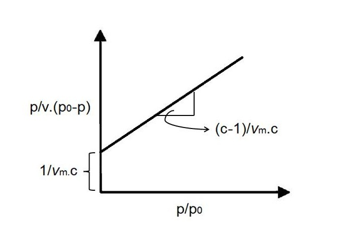 BET plot